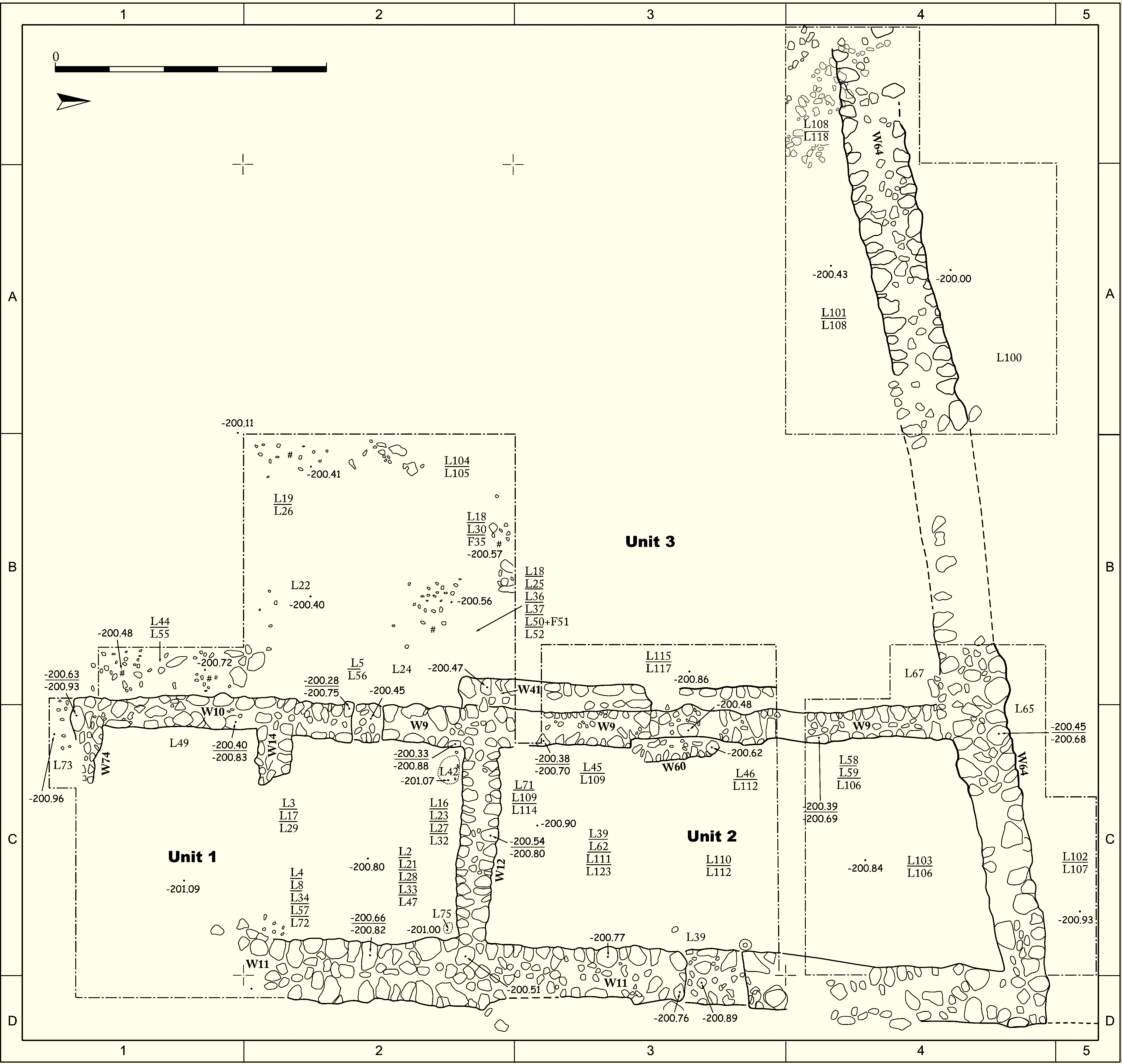 Fatzael 2 - Chalcolithic Archaeological site in Jordan Valley פצאל 2 - אתר ארכאולוגי מהתקופה הכלקוליתית - האתר שוכן בבקעת הירדן ליד היישוב פצאל This work is free and may be used by anyone for any purpose. If you wish to use this content, you do not need to request permission as long as you follow any licensing requirements mentioned on this page.